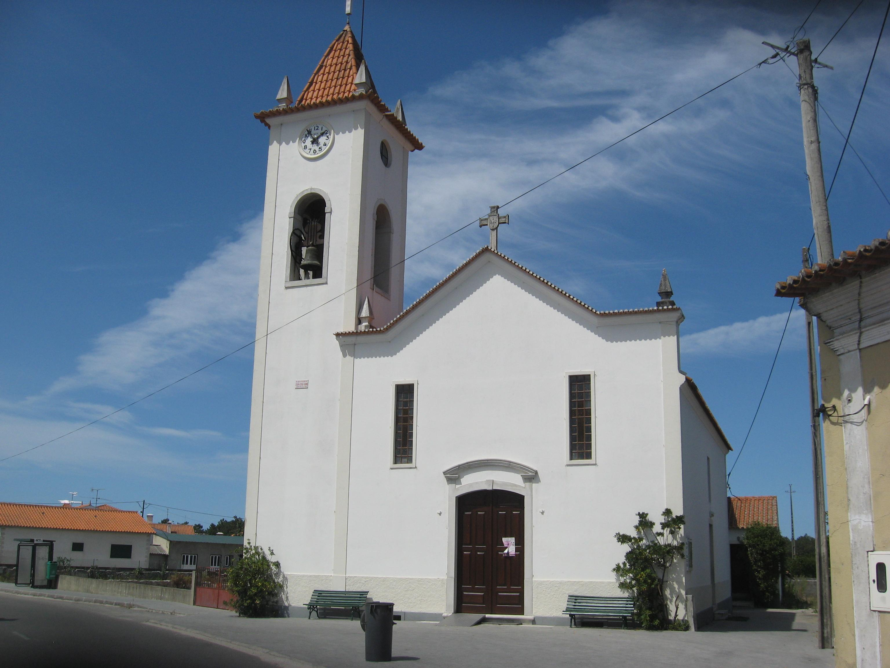 Curate of Carapelhos